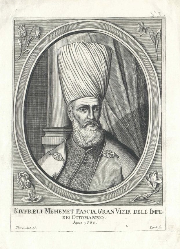 Gran Visir Mehmed Köprülü of the otoman empire